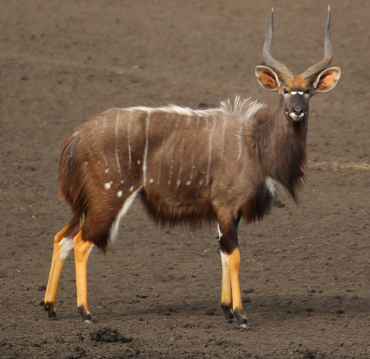 Male nyala in Hlane Royal National Park, Swaziland